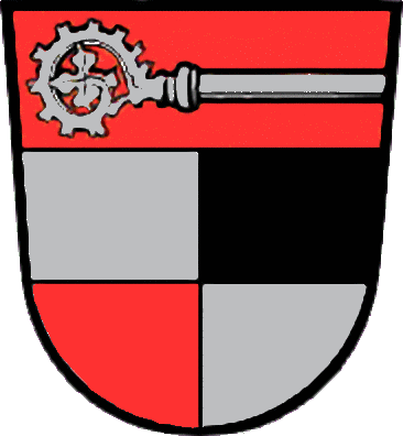 Coat of arms of the Town Pleinfeld